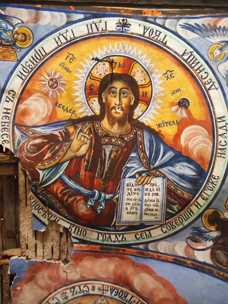 Frescos from Dolnopasarel monastery, painted by painters Mihail Blagoev and Hristo Blagoev in XIX century.